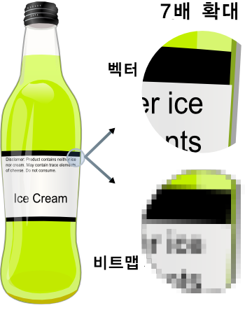 To explain the difference between the vector and bitmap in Korean